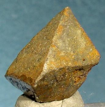 Stolzite Locality: Darwin District, Inyo County, California, USA (Locality at ) Size: 2.0 x 1.7 x 1.6 cm A tan to gray stolzite crystal from the famous Darwin District of California. This complete all-around, pristine crystal has textbook tetragonal form and moderate lustre. Ex. Bob Byers Collection.